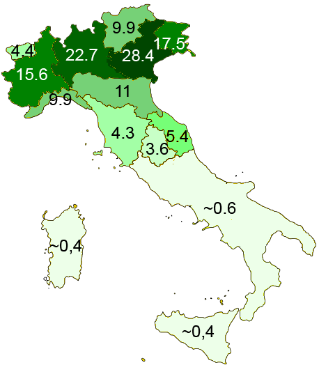 Electoral results of Northern League in the 2009 European election. Figures for southern and insular Italy, where the party does not usually run, are averages for the entire macro-region.